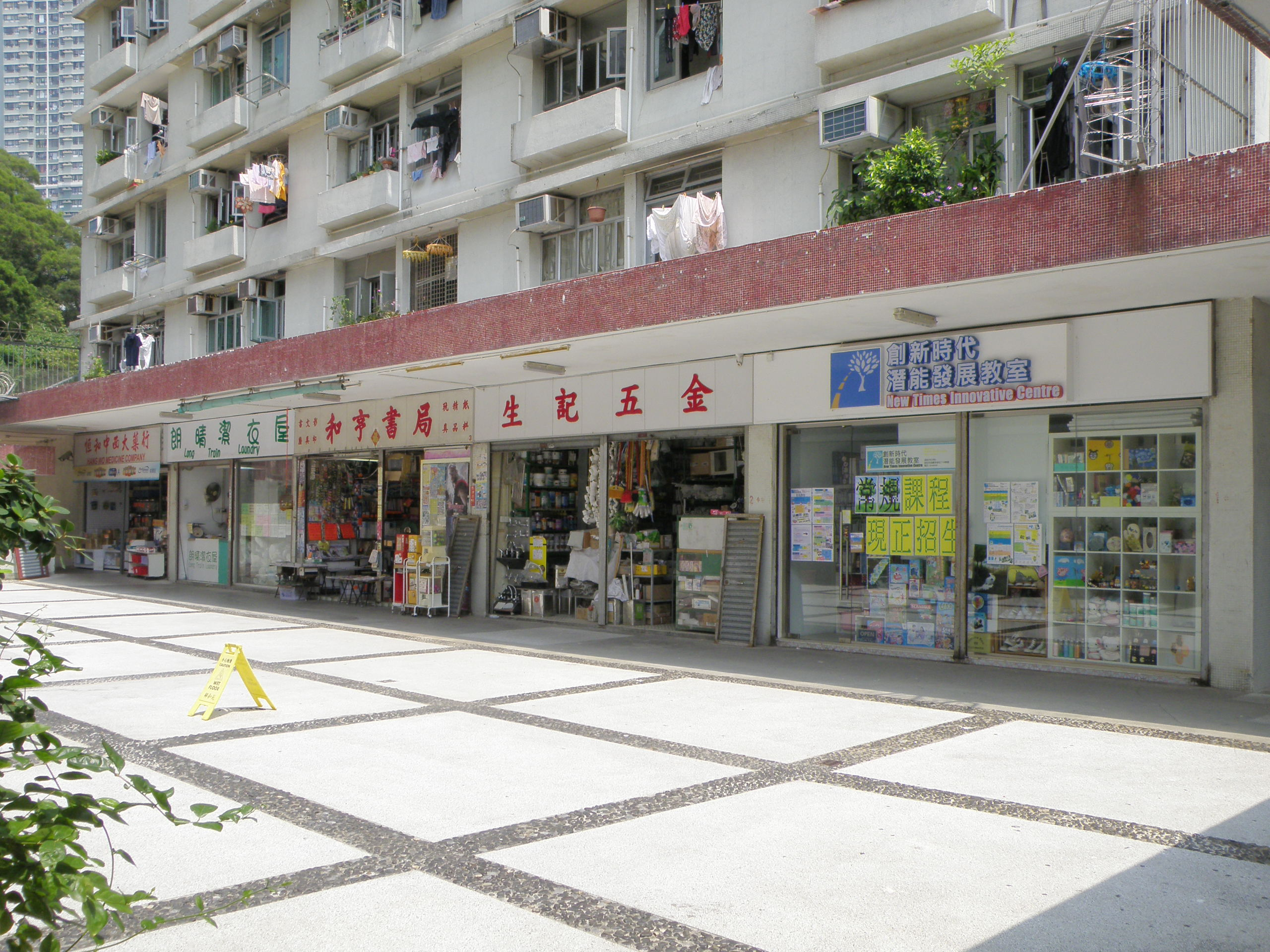 Cheung Wo Court in Kwun Tong, Hong Kong.